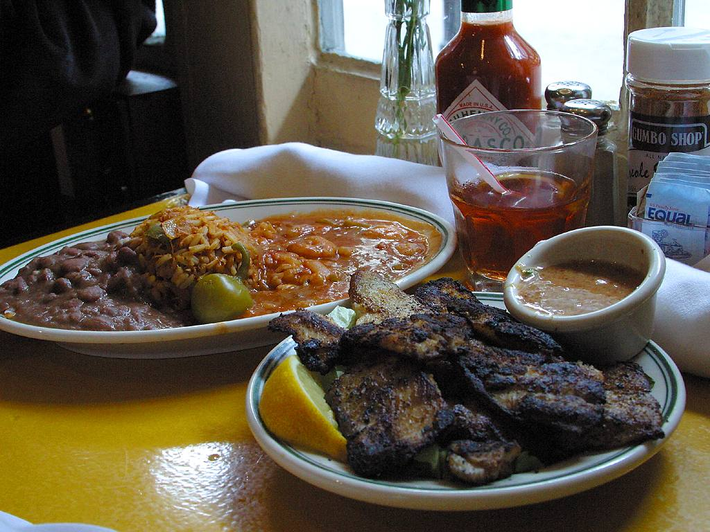 typical New Orleans dishes